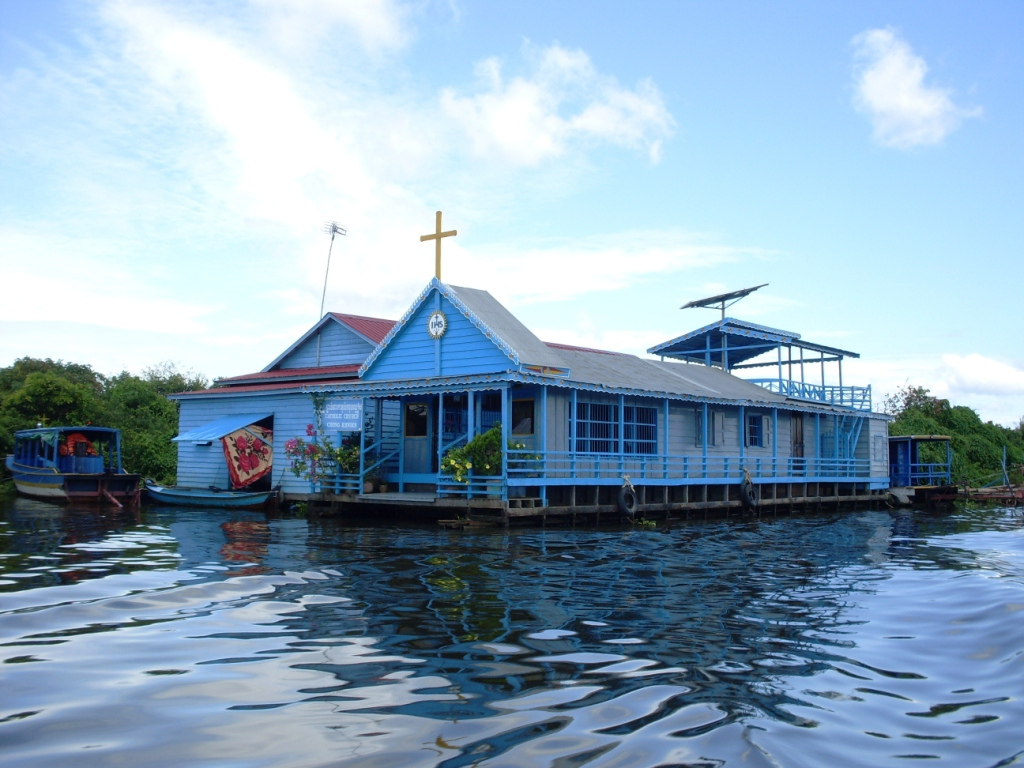 The Khmer Rouge era changed Cambodia dramatically between 1975 and 1978. In just three years, one of the largest genocides took place, killing more than 2 million people, according to official estimates. This fundamentally altered the religious demographics